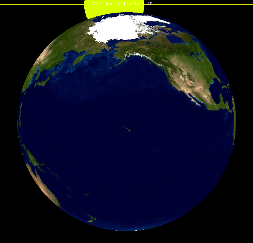 December_2001_lunar_eclipse view of earth The orientation of the earth as viewed from the center of the moon during greatest eclipse. thumb